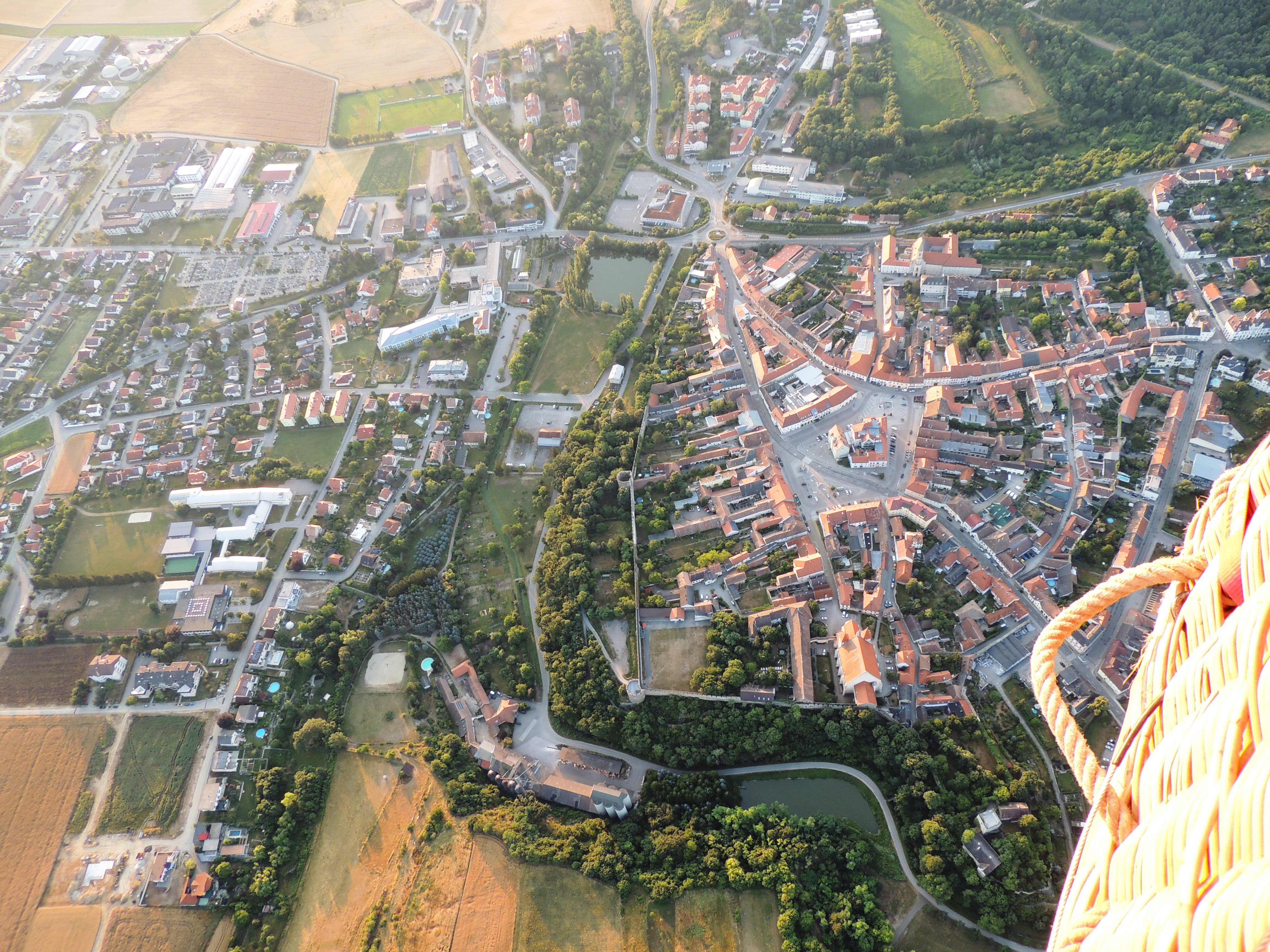 City Center of Eggenburg, early morning viev from baloon